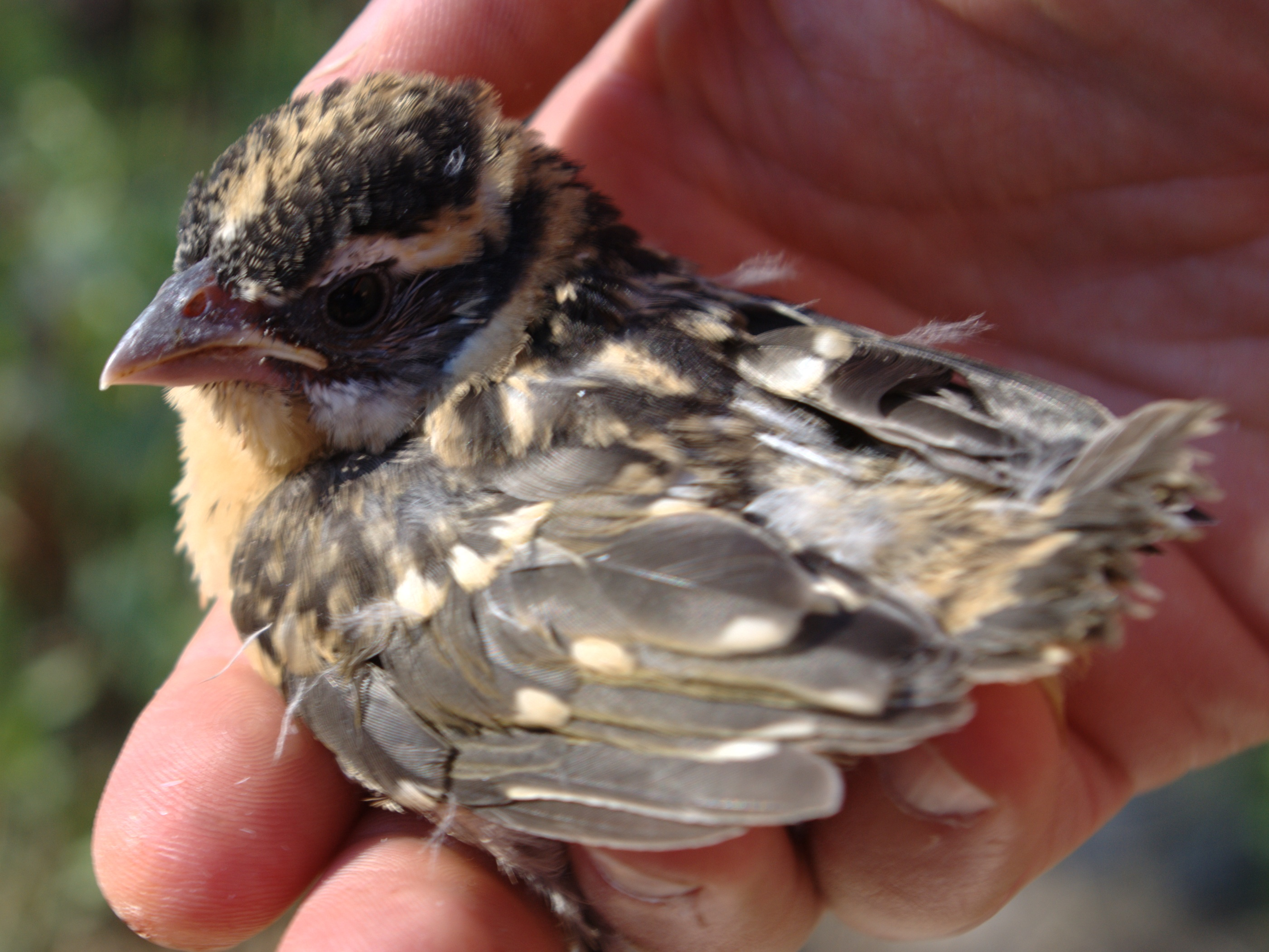 Fledgeling Black-headed Grosbeak, Pheucticus melanocephalus, rescued from a cat, Española, New Mexico. Holding the camera in my left hand—I wish I could do better with both hands. The eye-ring and the highlight in the eye are slightly lightened.